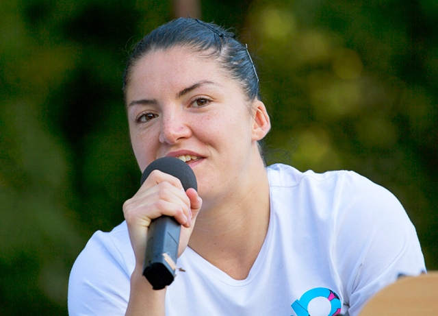 Montenegrin handballer Jovanka Radicevic on the Győri Audi ETO KC season opening event in 2011.